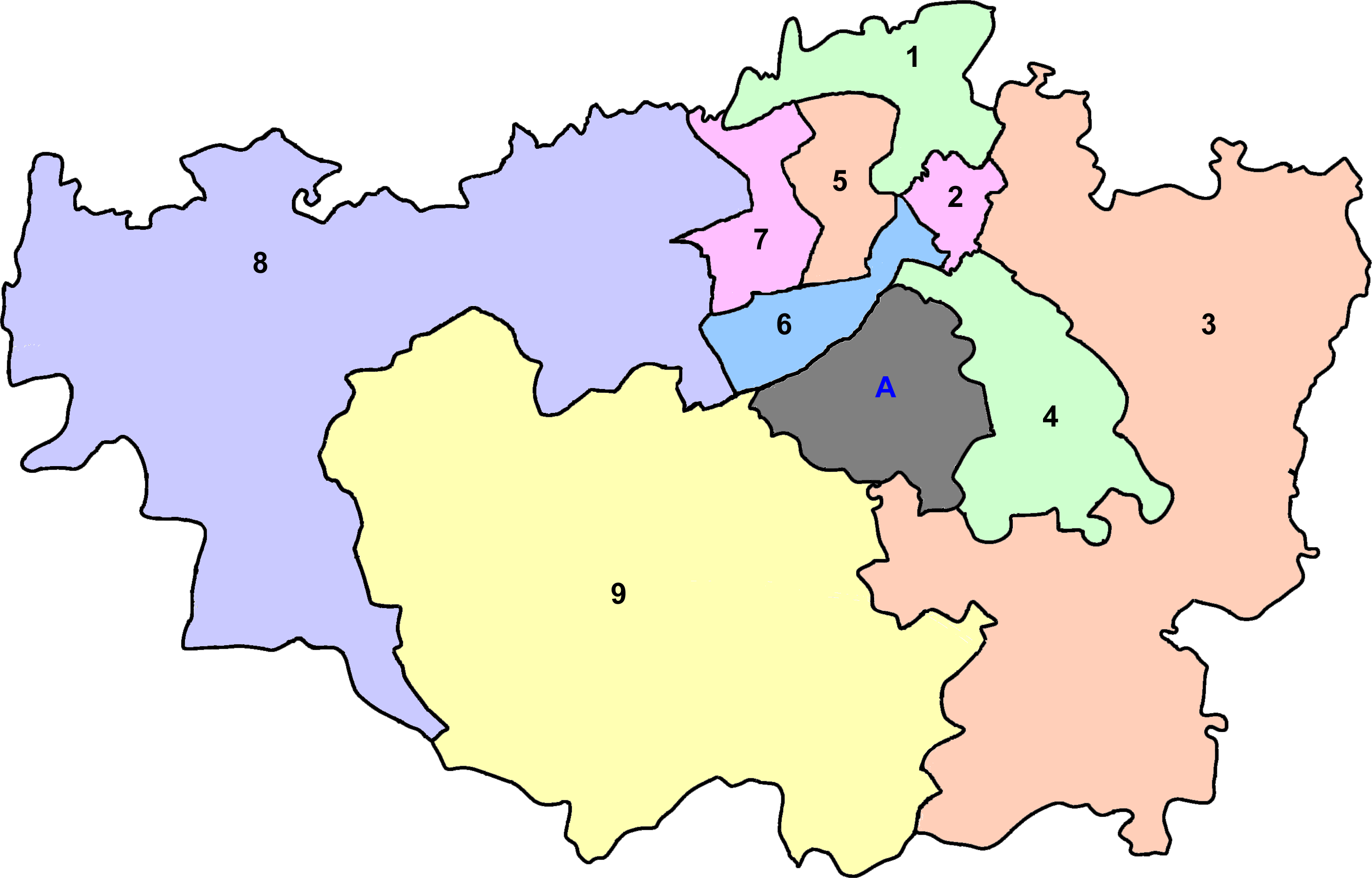 Nine administrative towns of Lahore District and one Cantonment. 1. Ravi Town, 2. Shalimar Town, 3. Wagah Town, 4. Aziz Bhatti Town, 5. Data Gunj Bakhsh Town, 6. Gulberg Town, 7. Samanabad Town, 8. Iqbal Town, 9. Nishtar Town. A. Lahore Cantt.